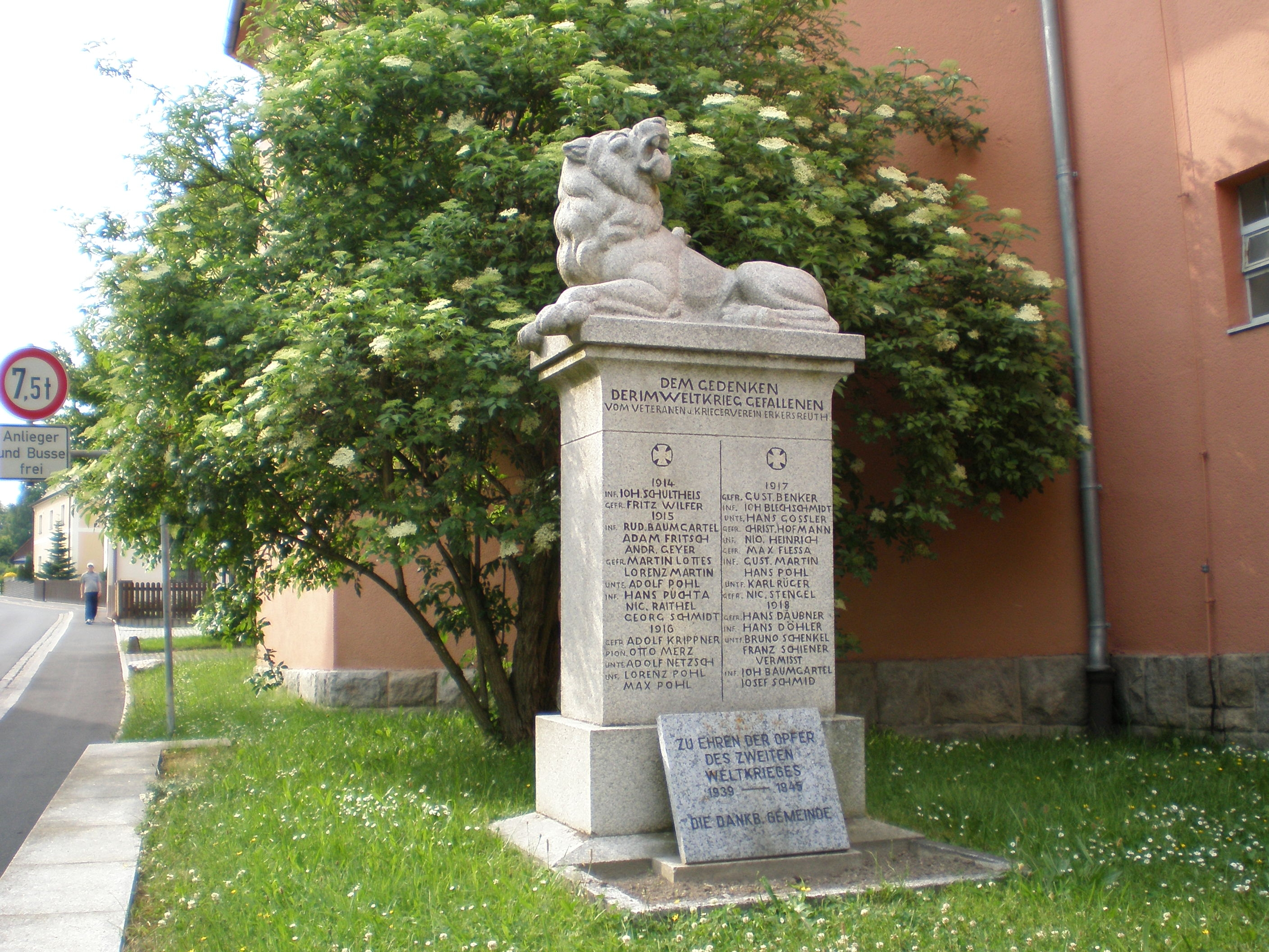 Erkersreuth (Selb), Bavaria, Germany- WW1 & WW2 Memorial